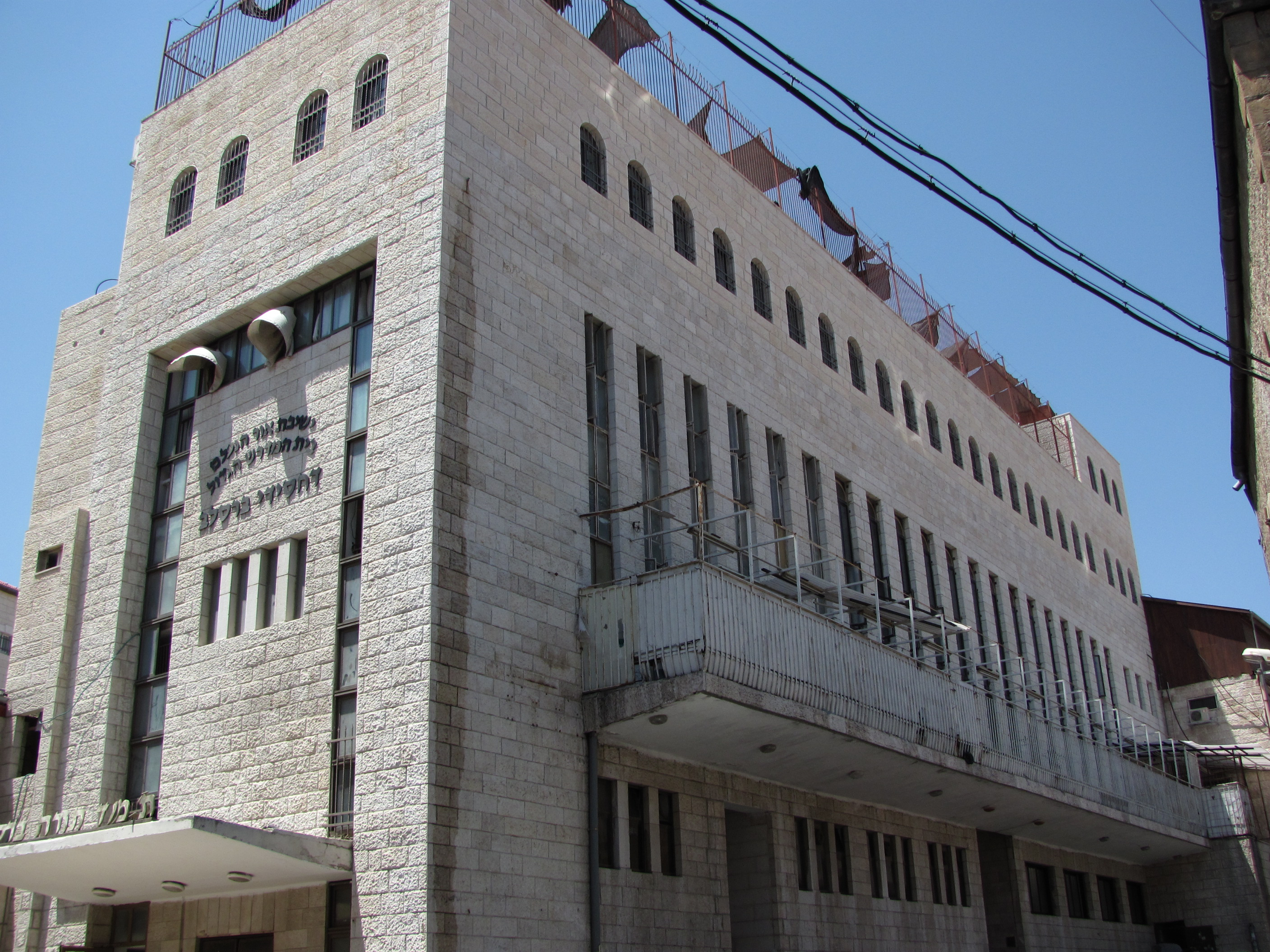 Breslov Yeshiva and main shul (Beth midrash), Mea Shearim street, Jerusalem. The Breslov Yeshiva and Synagogue in Mea Shearim, Jerusalem, established by Rabbi Eliyahu Chaim Rosen in 1953